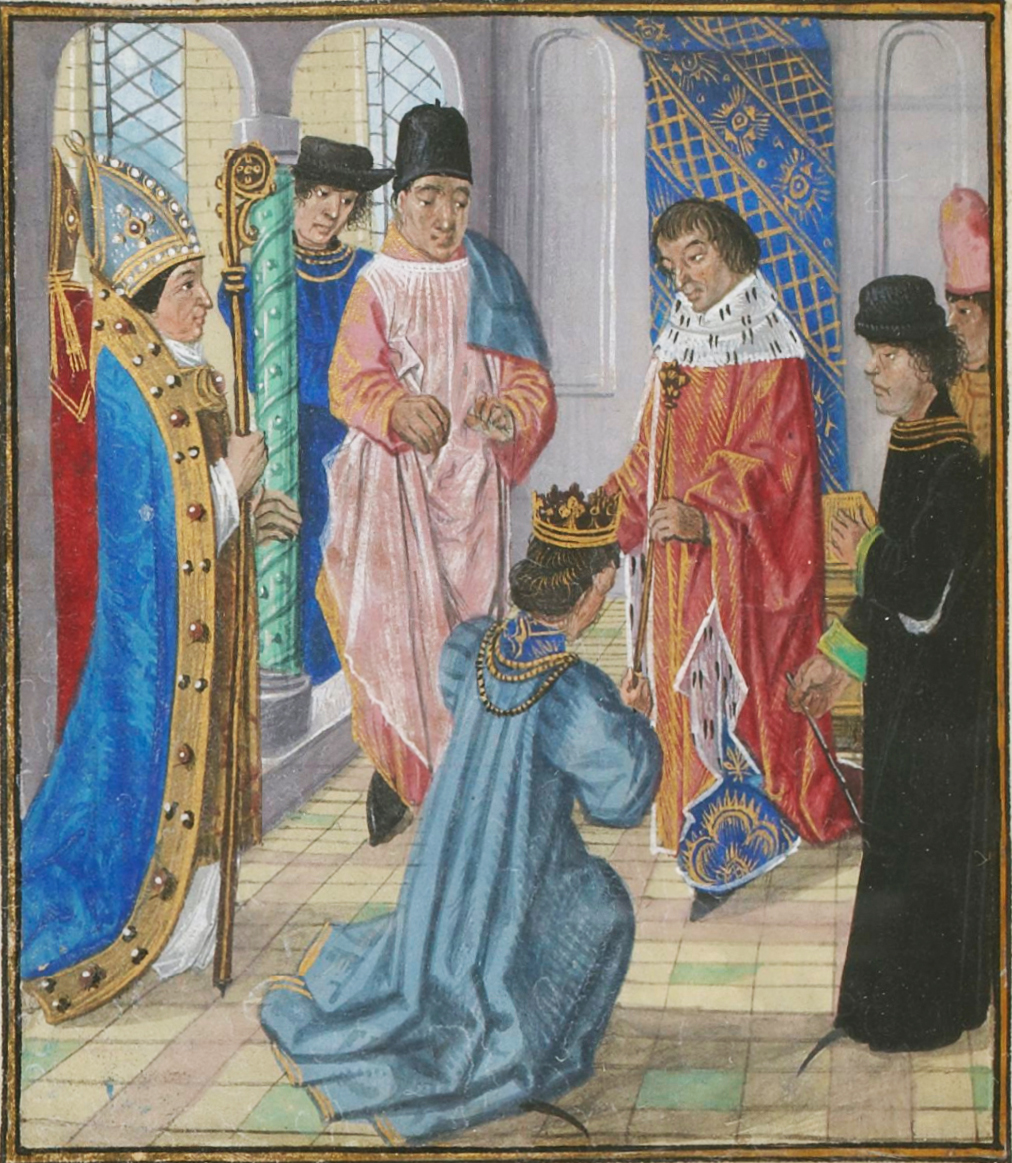 Abdication of Richard II of England